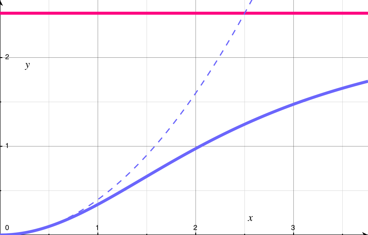 Whistler mode, exact and almost solution in (w,kc) space